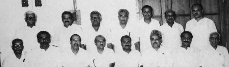 Kerala Ministers from 1977 AK Antony Ministry